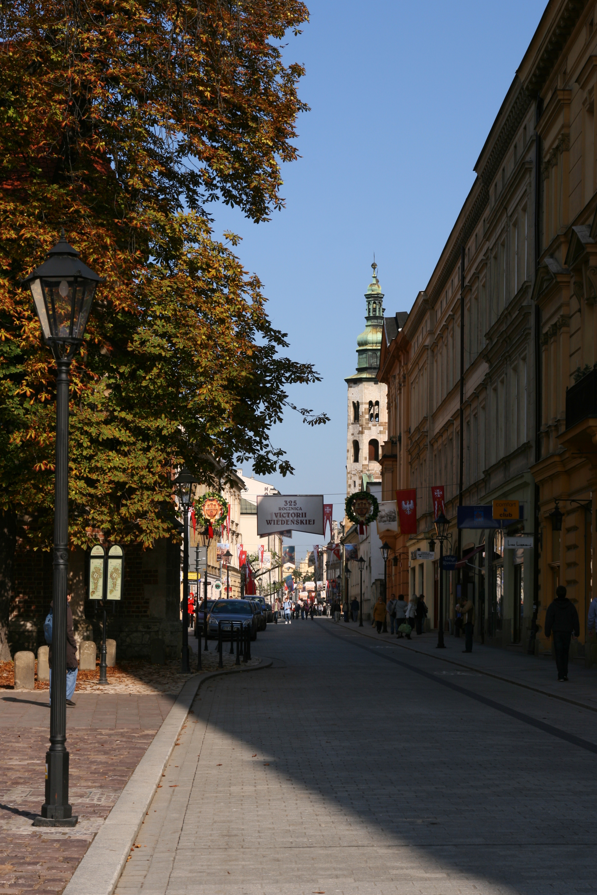 Grodzka Street in Kraków (Poland).